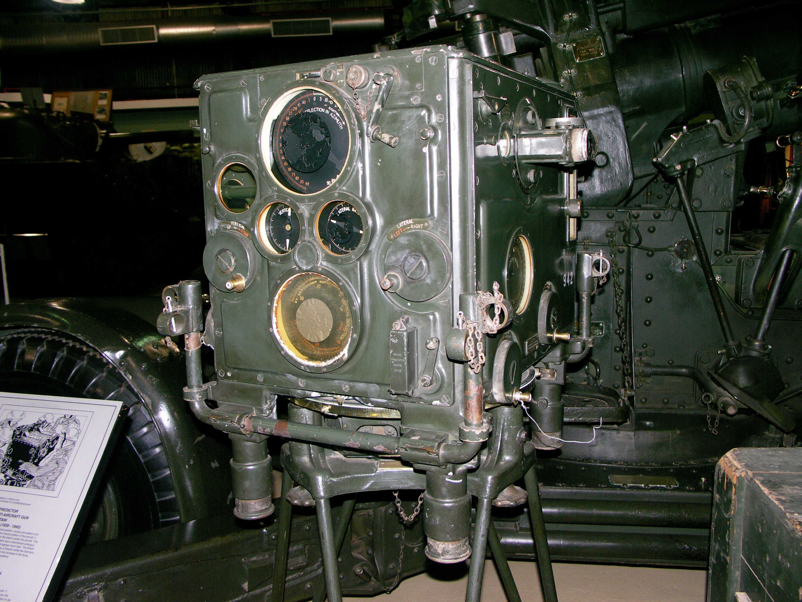 A Number 1 Mark III Predictor used with the QF 3.7 inch AA gun. The device is a mechanical analog computer used to track aircraft and control the attached anti aircraft weapons. South African National Museum of Military History, Johannesburg